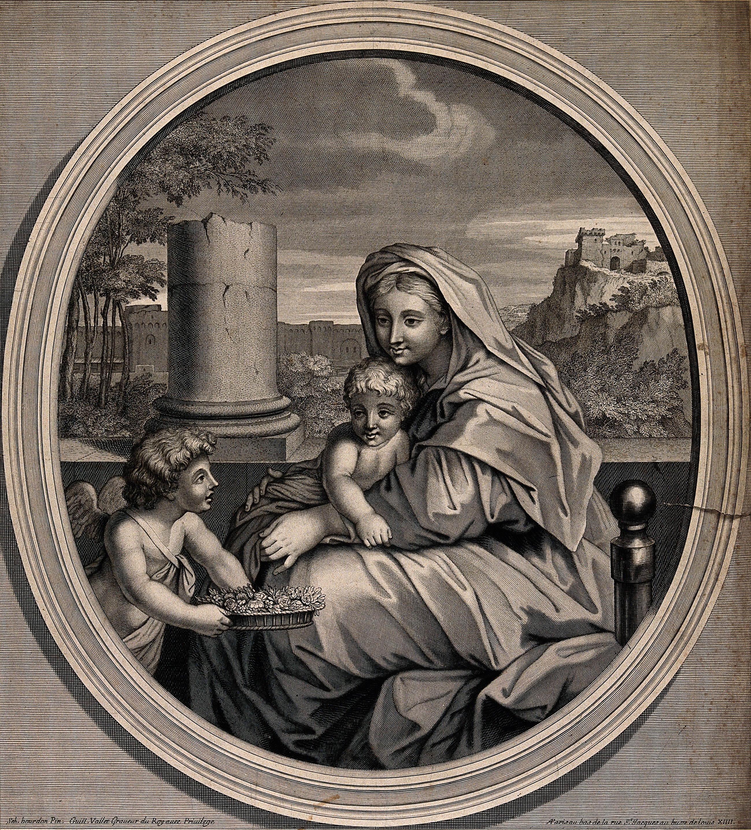 Saint Mary (the Blessed Virgin) with the Christ Child and an angel. Engraving by G. Vallet after S. Bourdon. Iconographic Collections